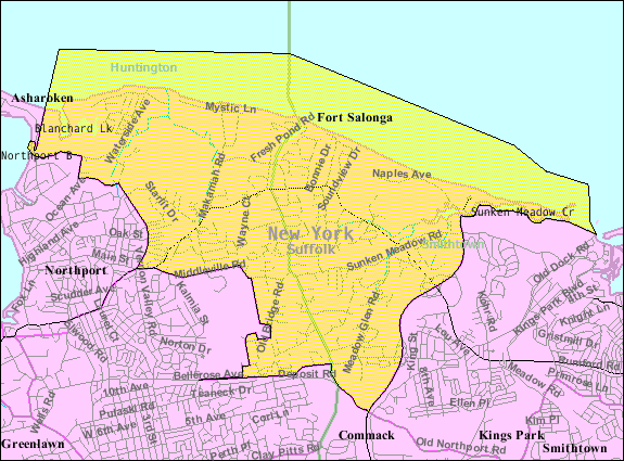 U.S. Census 2000 reference map for Fort Salonga